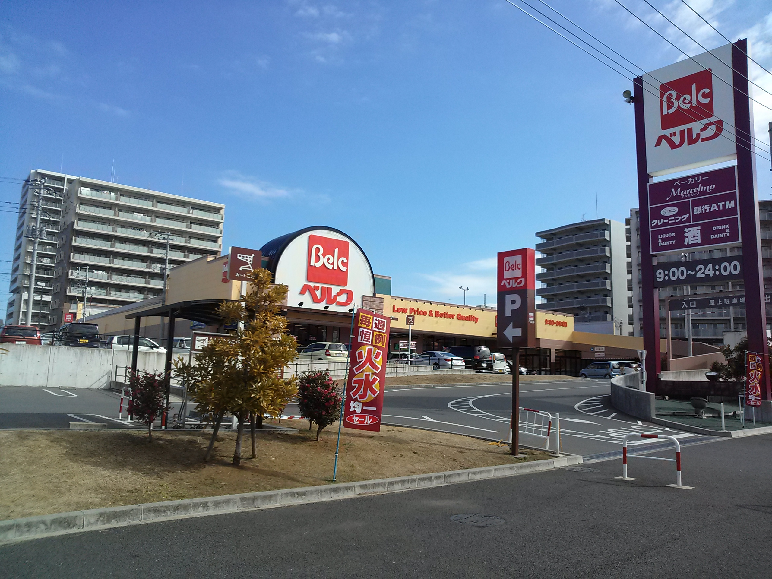 Belc Matsudo-Akiyama